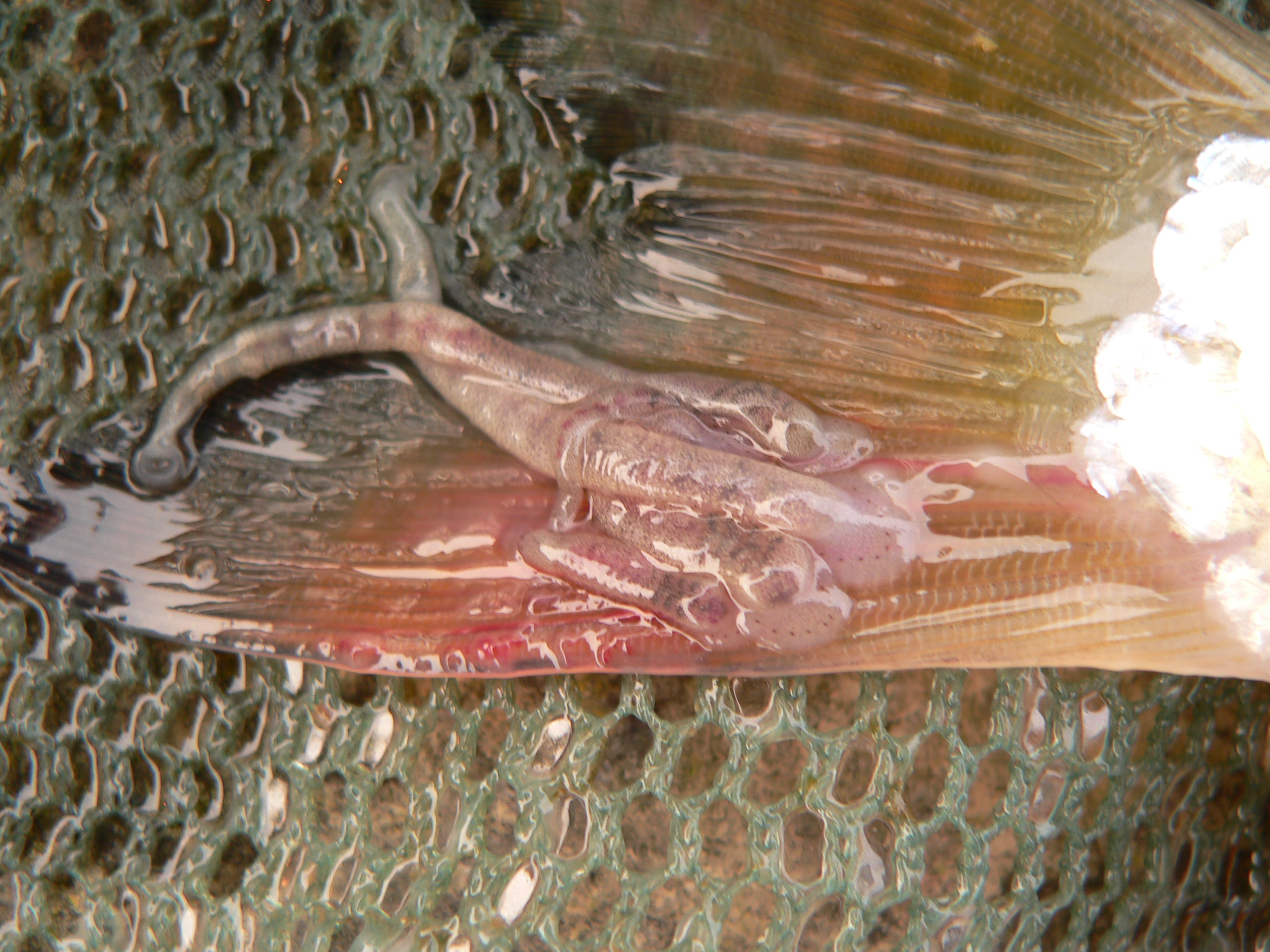 Fish leeches on Roach Rutilus rutilus